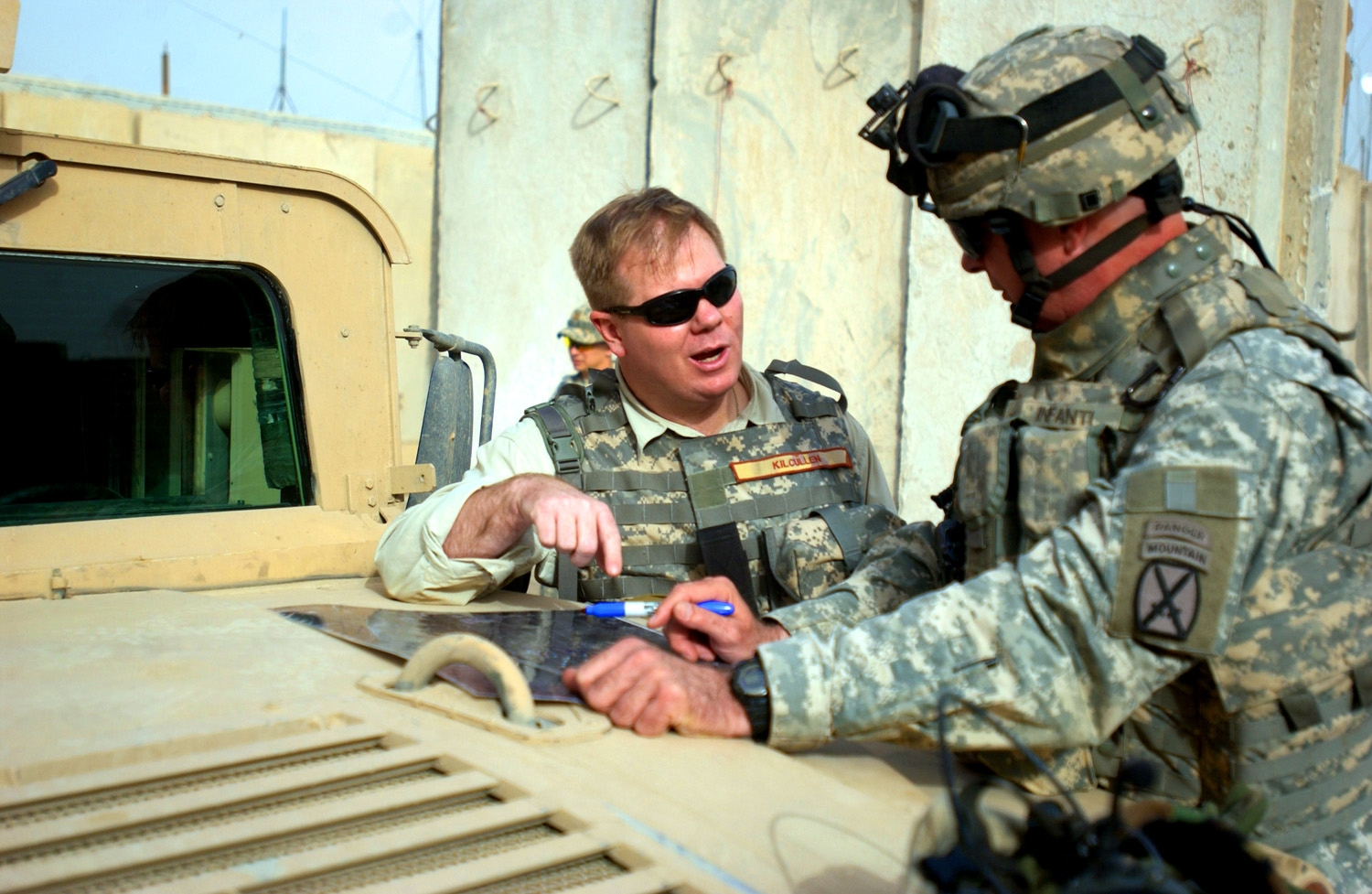 Dr. David Kilcullen (left) asks a question of Lt. Col. Michael Infanti, commander of the 4th Battalion, 31st Infantry Regiment, 2nd Brigade Combat Team, 10th Mountain Division (Light Infantry) out of Fort Drum, N.Y., before visiting the Yusufiyah, Iraq Joint Security Station June 3. Dr. Kilcullen, counterinsurgency adviser to Gen. David Petraeus, commander of U.S. Forces in Iraq, visited much of the 2nd BCT's area of operations June 2 and 3.